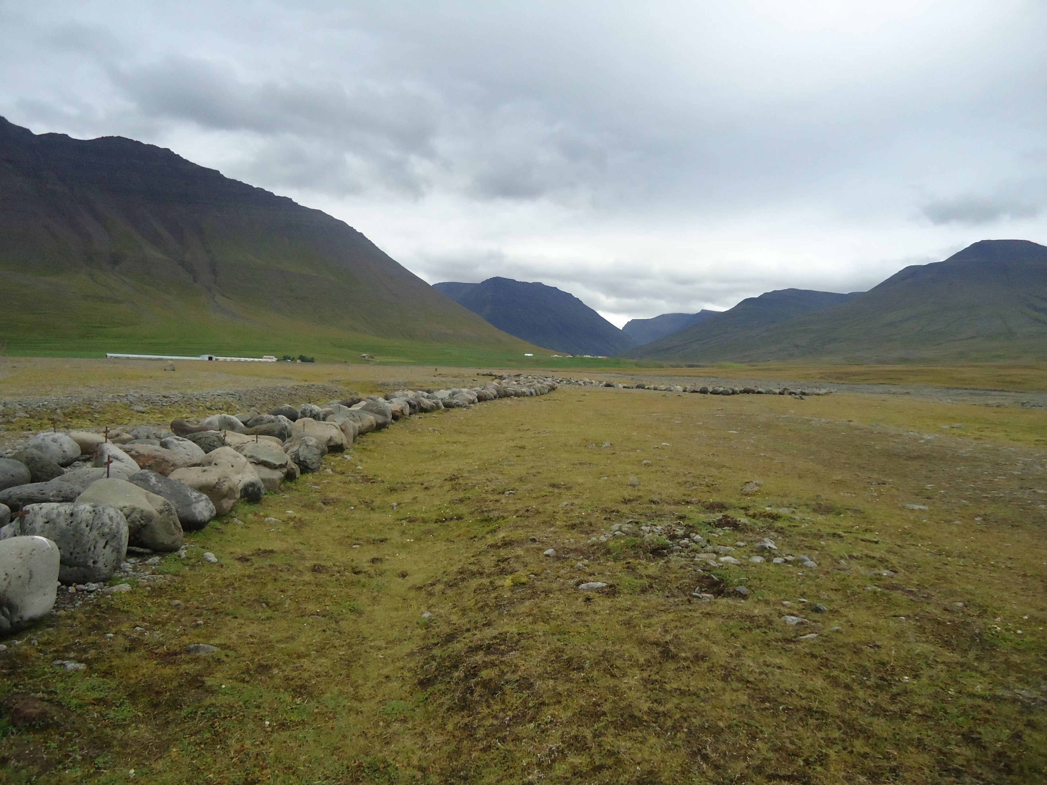 The site of Haugsnesbardagi (Skagafjörður, Iceland, April 19, 1246), one of the main battles of the Age of the Sturlungs. 1100 rocks have been arranged to represent the fighters.